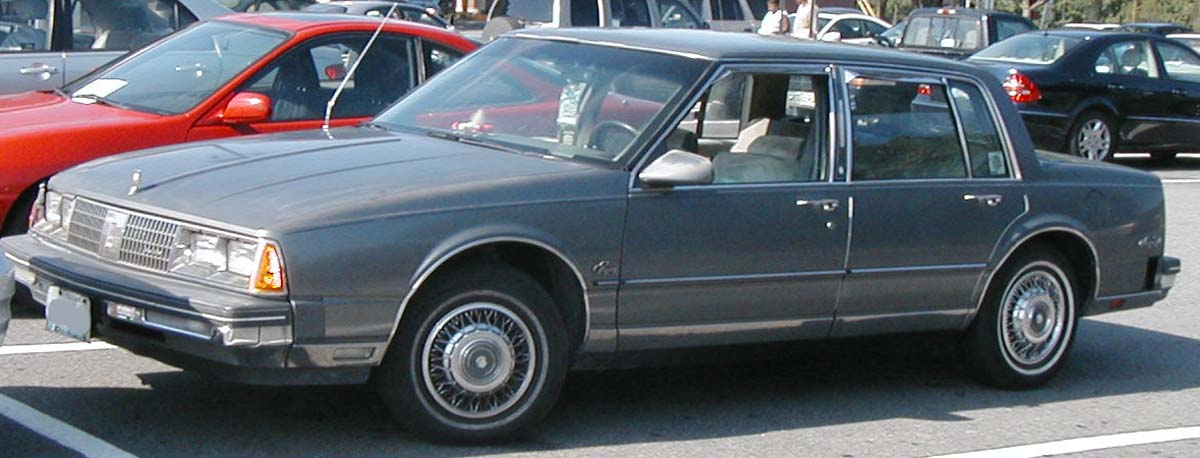 1985-1986 Oldsmobile Ninety-Eight photographed in USA.